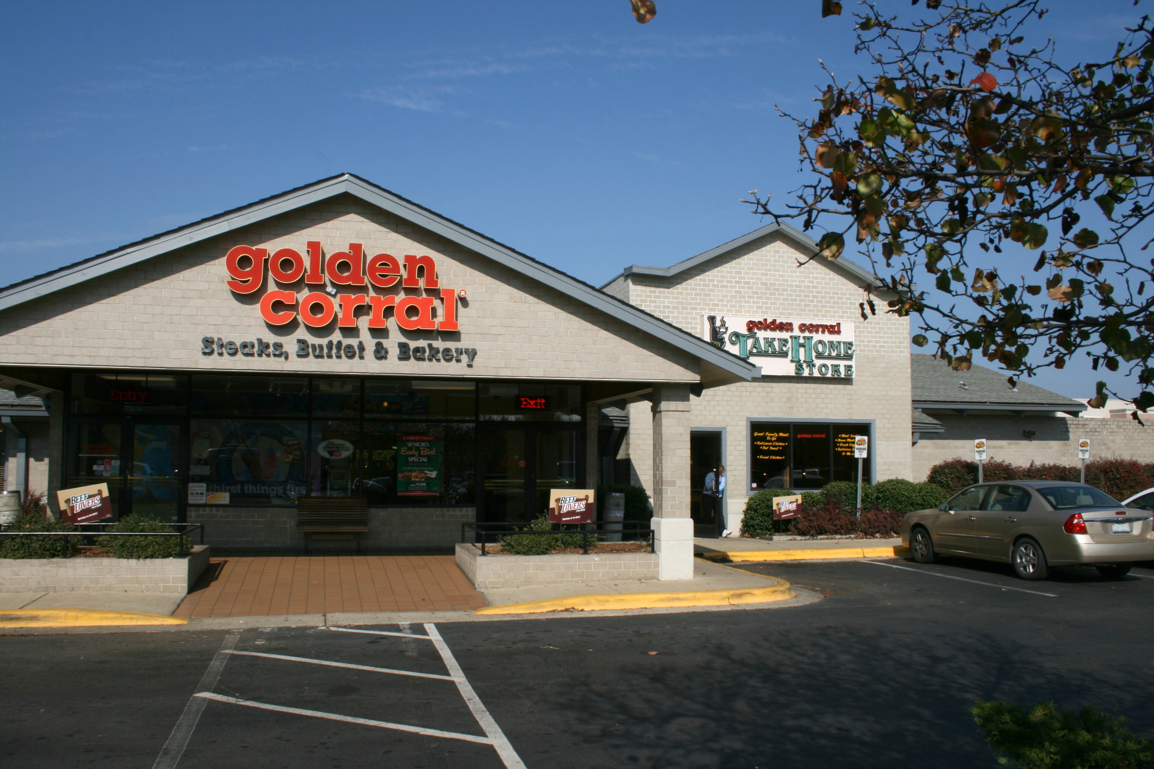 Golden Corral restaurant at 3800 North Roxboro Street in Durham, North Carolina.